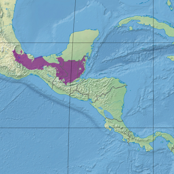 Ecoregion NT0154 - Petén-Veracruz Moist Forests (in purple)